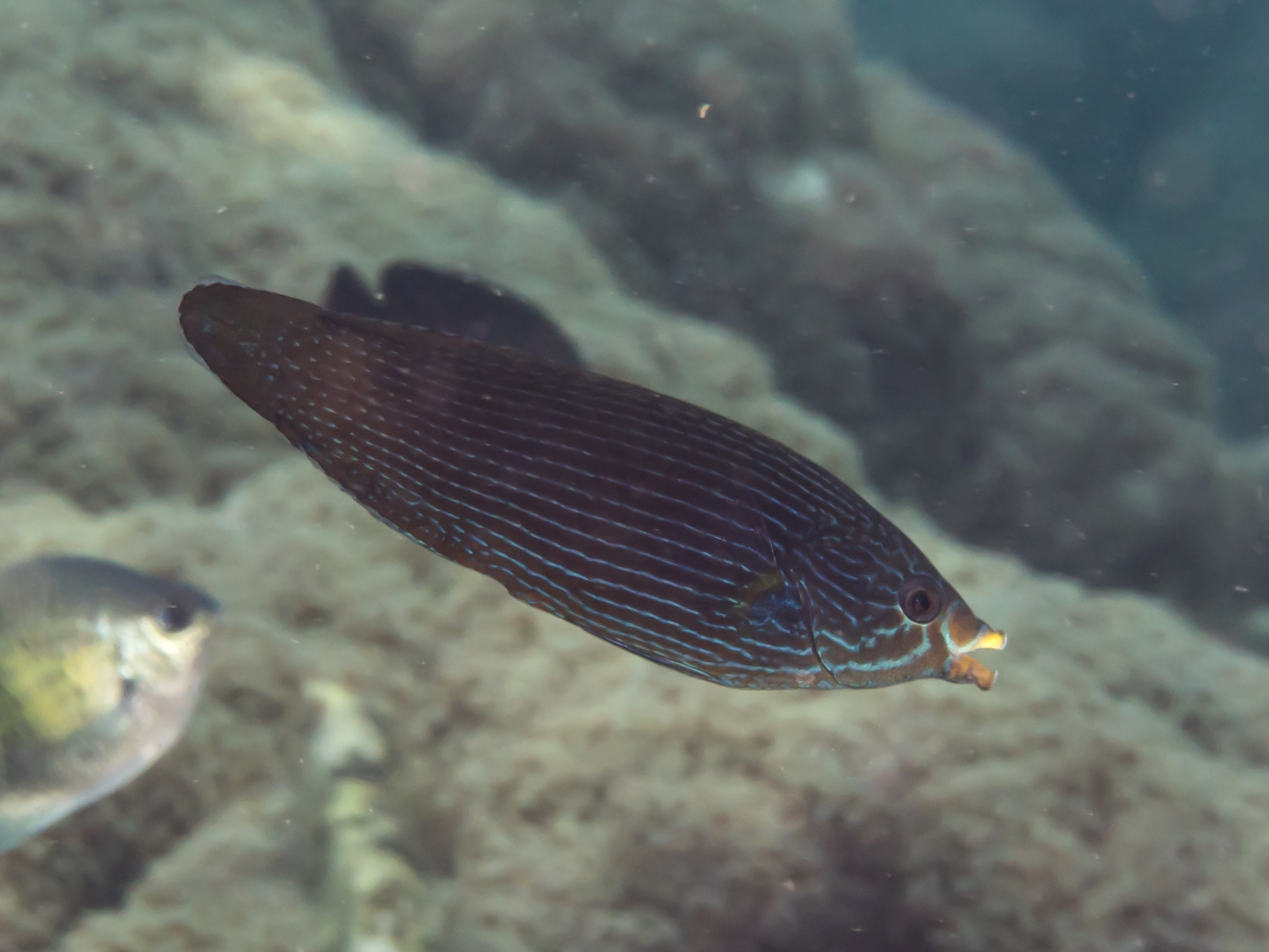 Lembeh, Indonesia - Tubelip wrasse (Labrichthys unilineatus)